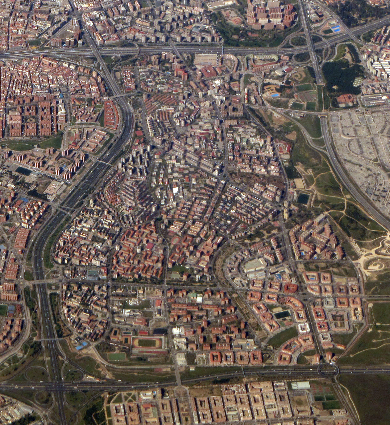 Puente de Vallecas